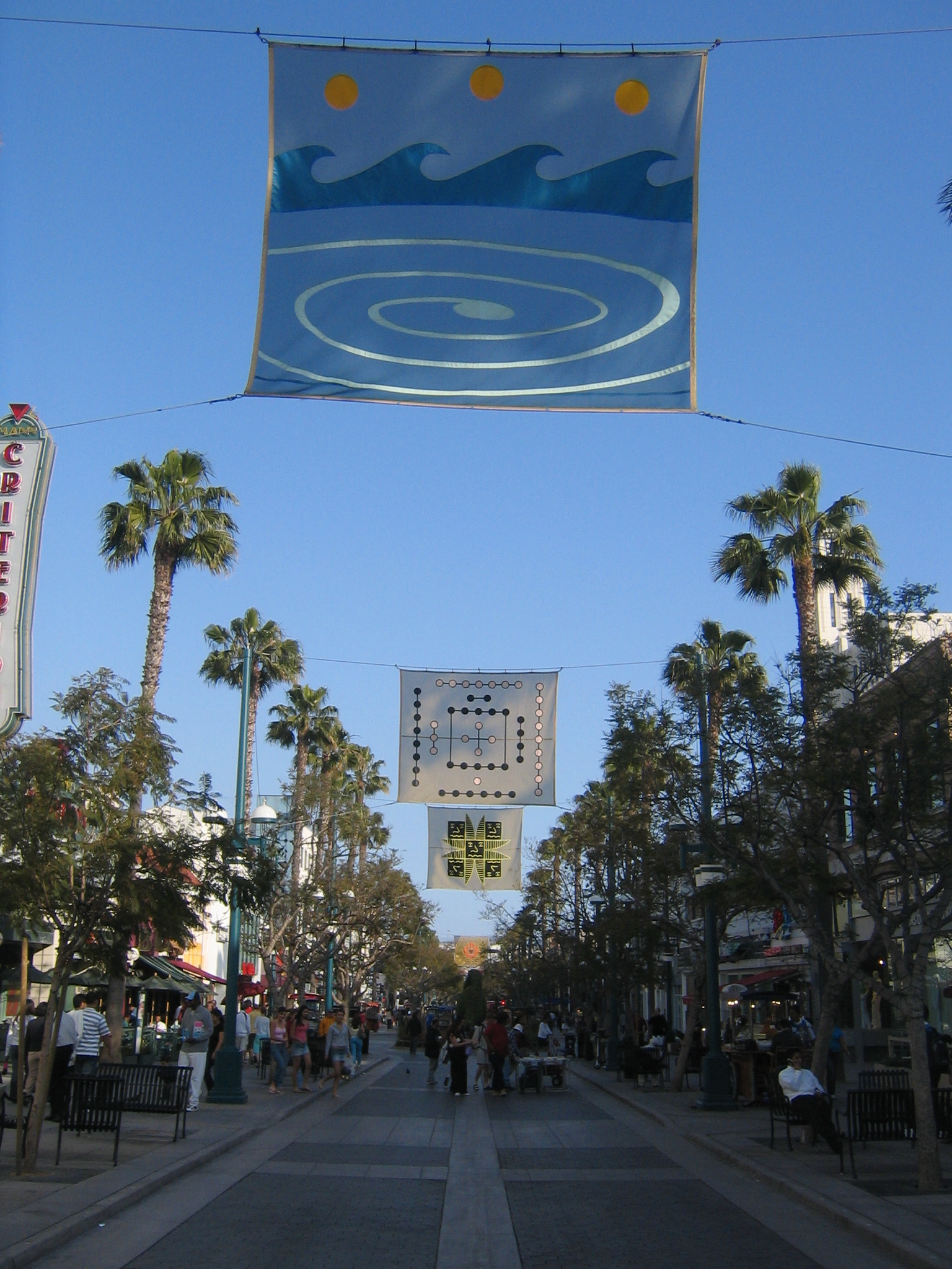 View of the Third Street Promenade in Santa Monica, California.